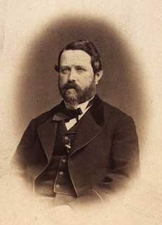 Ludvig Ernst (Luis) Bramsen (1819-1886), Danish insurance company CEO